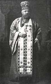 Alexis Toth (1853-1909)